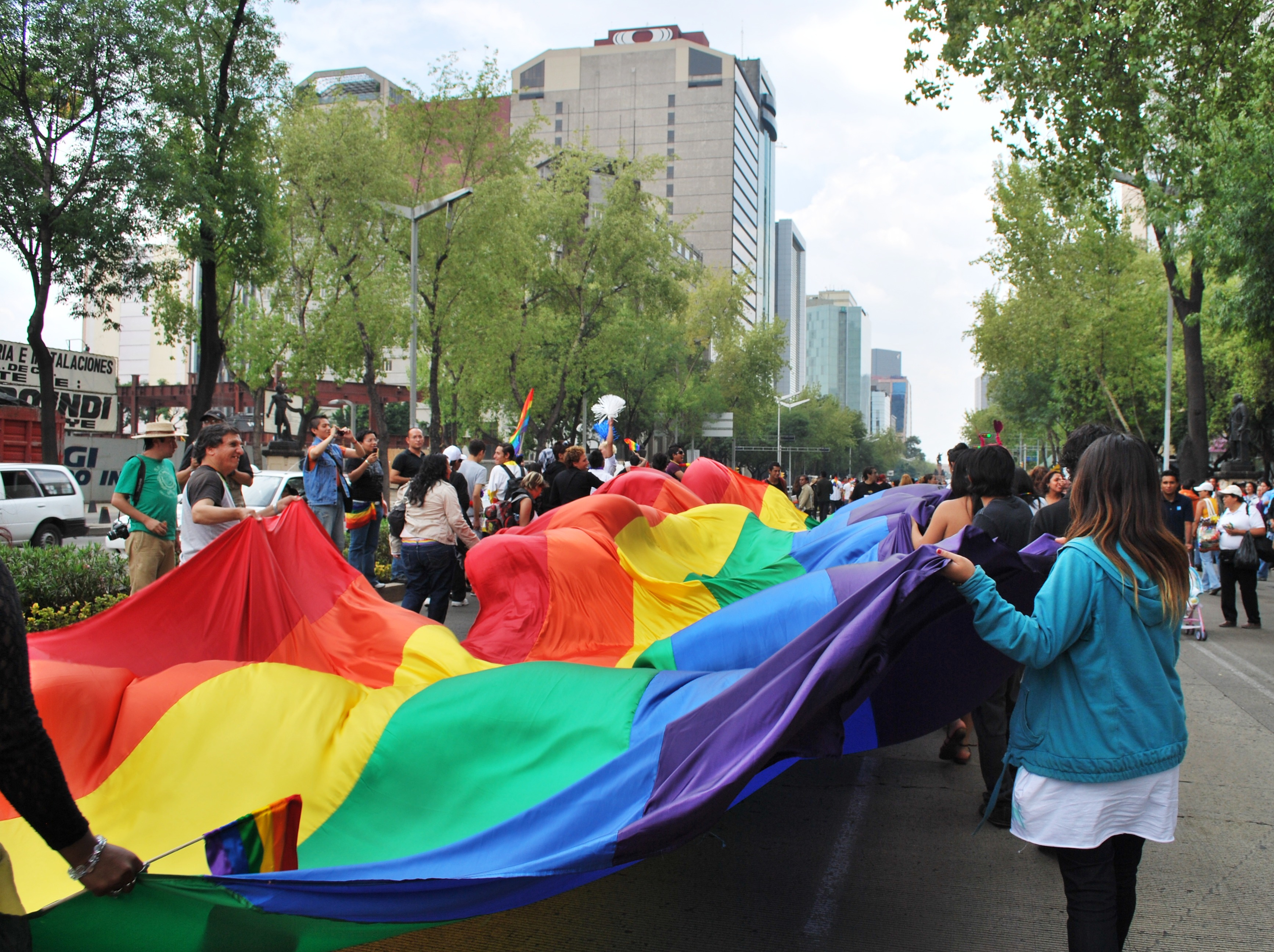 One of a number of rainbow flags carried at the 2009 Marcha Gay in Mexico City